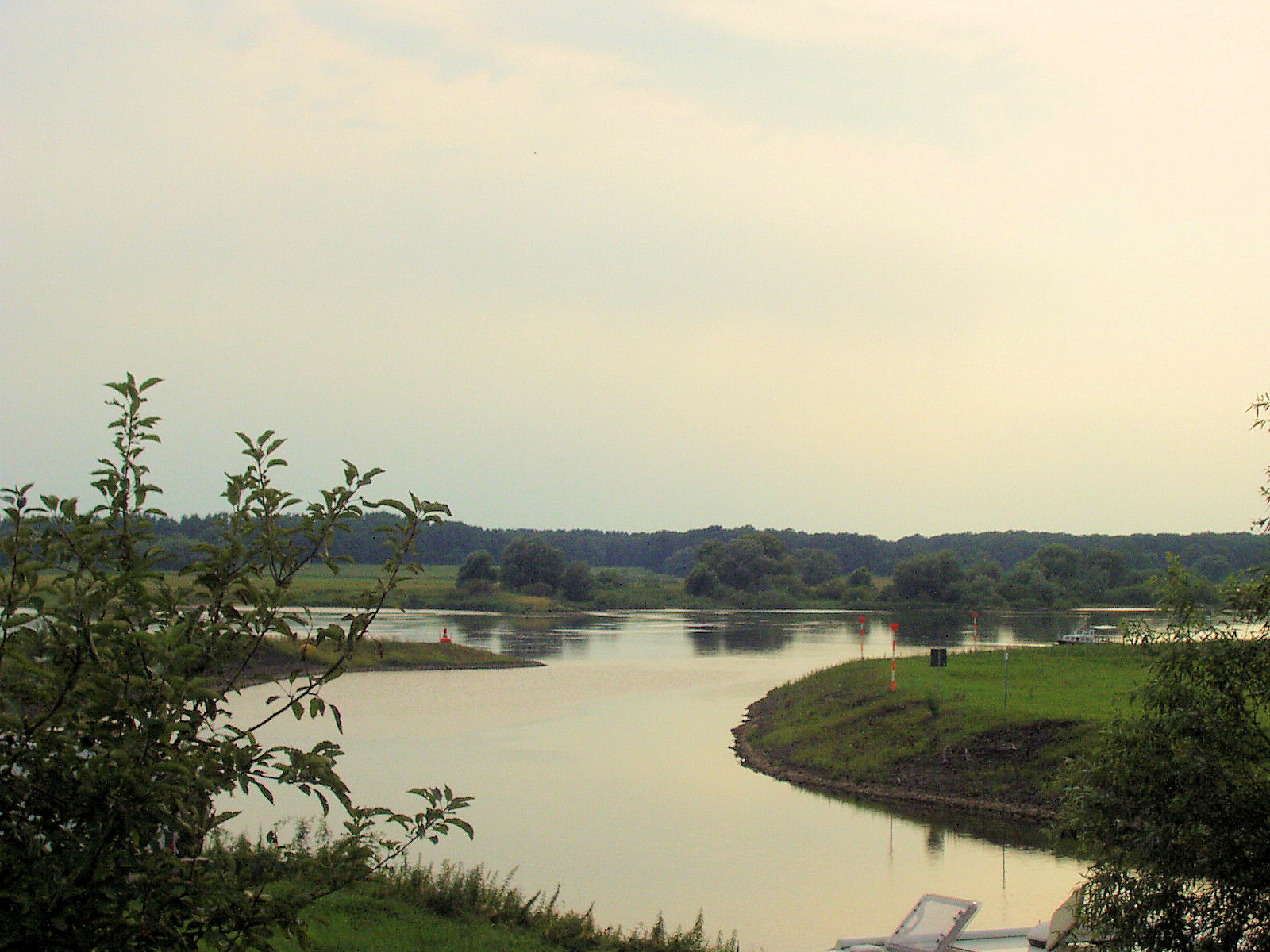 Dömitz, Germany. River Eldekanal (part of Müritz-Elde-Wasserstraße) flowing into the river Elbe.